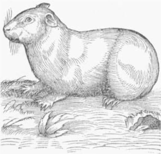 Guinea Pig, from Conrad Gesner (Swiss, 1516-1565), Historic animalium (vol. i, De Quadrupedus viviparis), 1551. Woodcut.